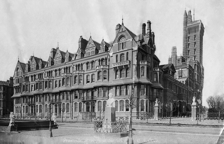 The Granville Hotel in its original form before alterations in 1900.